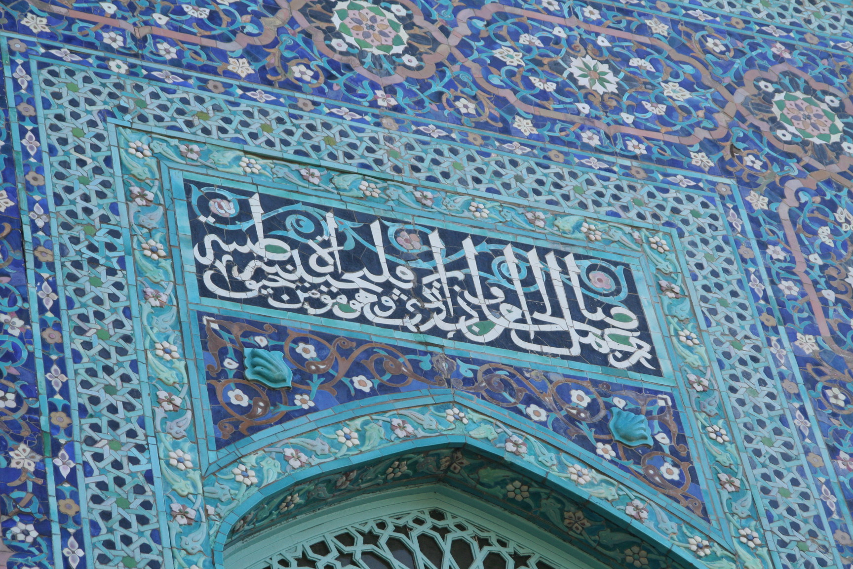 Saint Petersburg Mosque